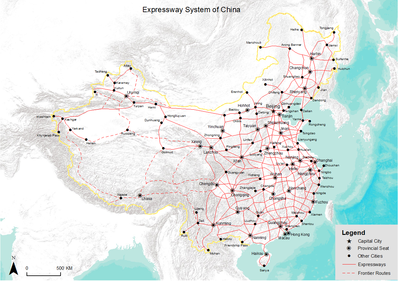 Map of Highways/Expressways in mainland China.